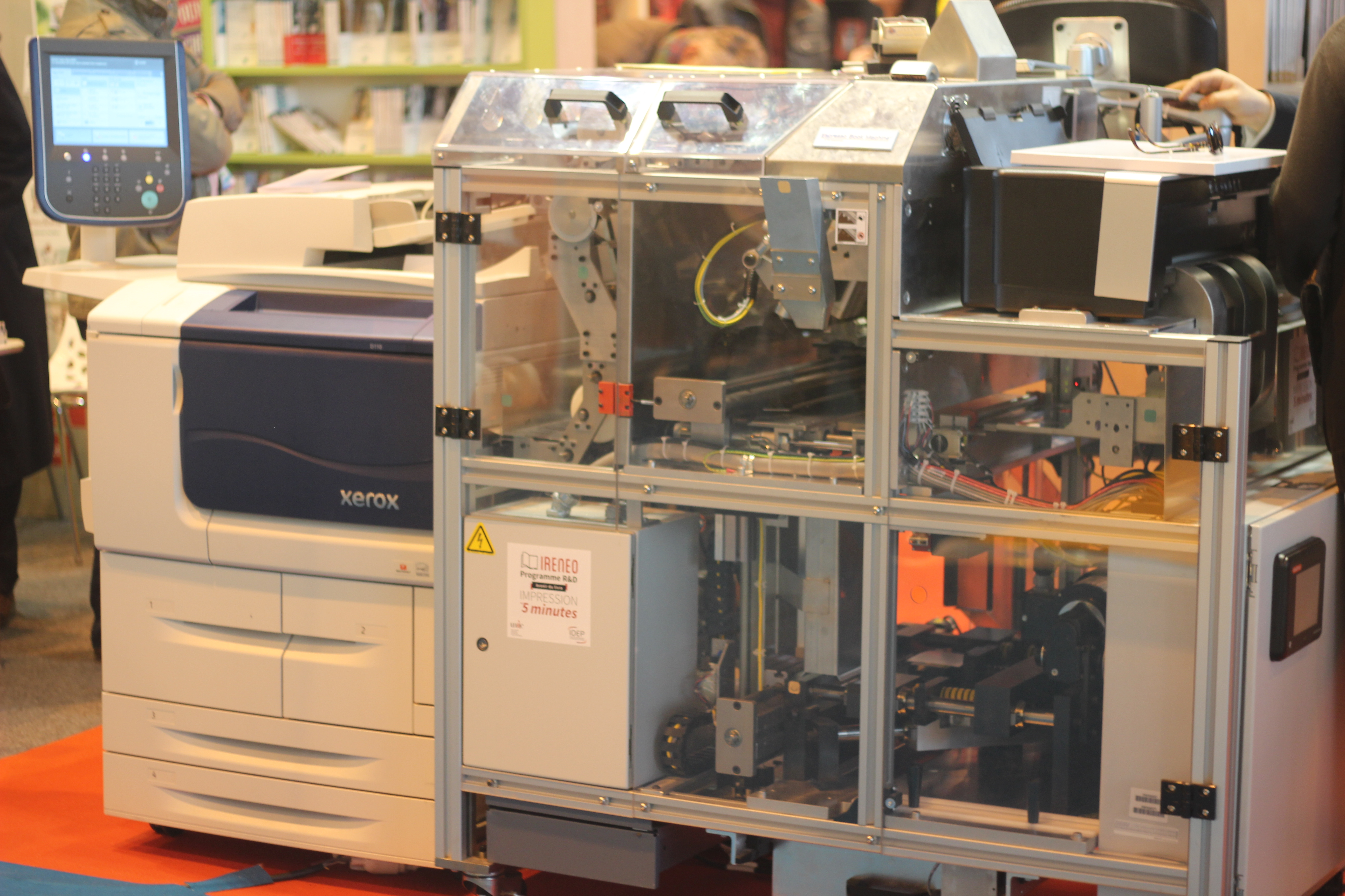 2015 Paris Book Fair, from 20 to 23 March 2015, Paris expo Porte de Versailles.